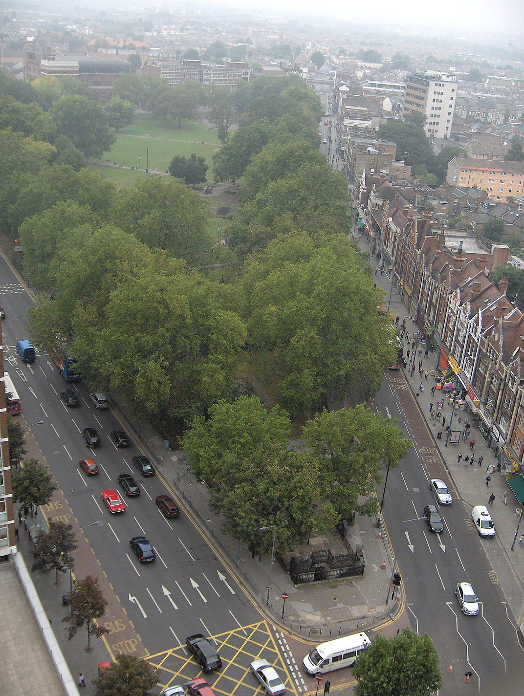 Shepherd's Bush Green, early morning, looking northwest towards Acton. Taken from the 19th floor of a nearby residential block. (September 2006)